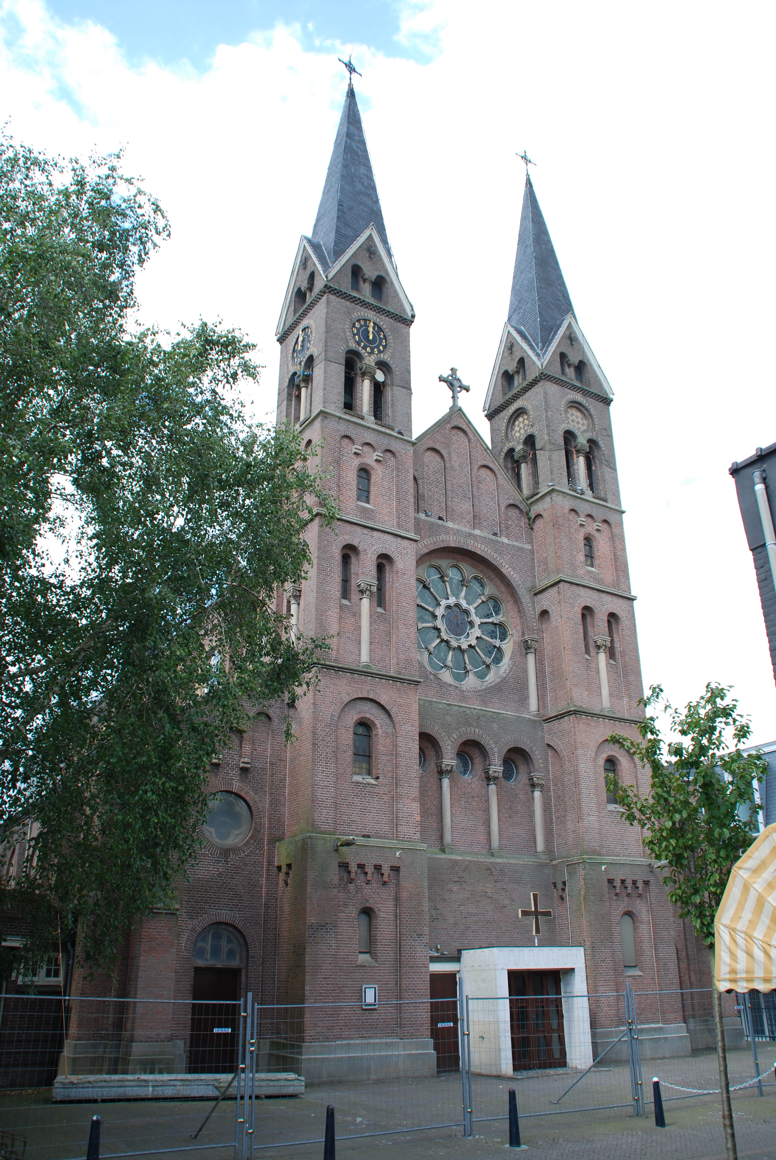 Sint-Jan de Doperkerk - Uithoorn, the Netherlands